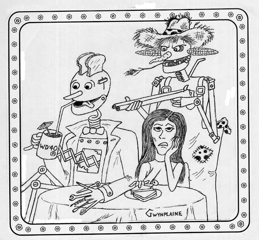 The artist has released copyright of this artwork and permitted its free dissemination and reproduction.